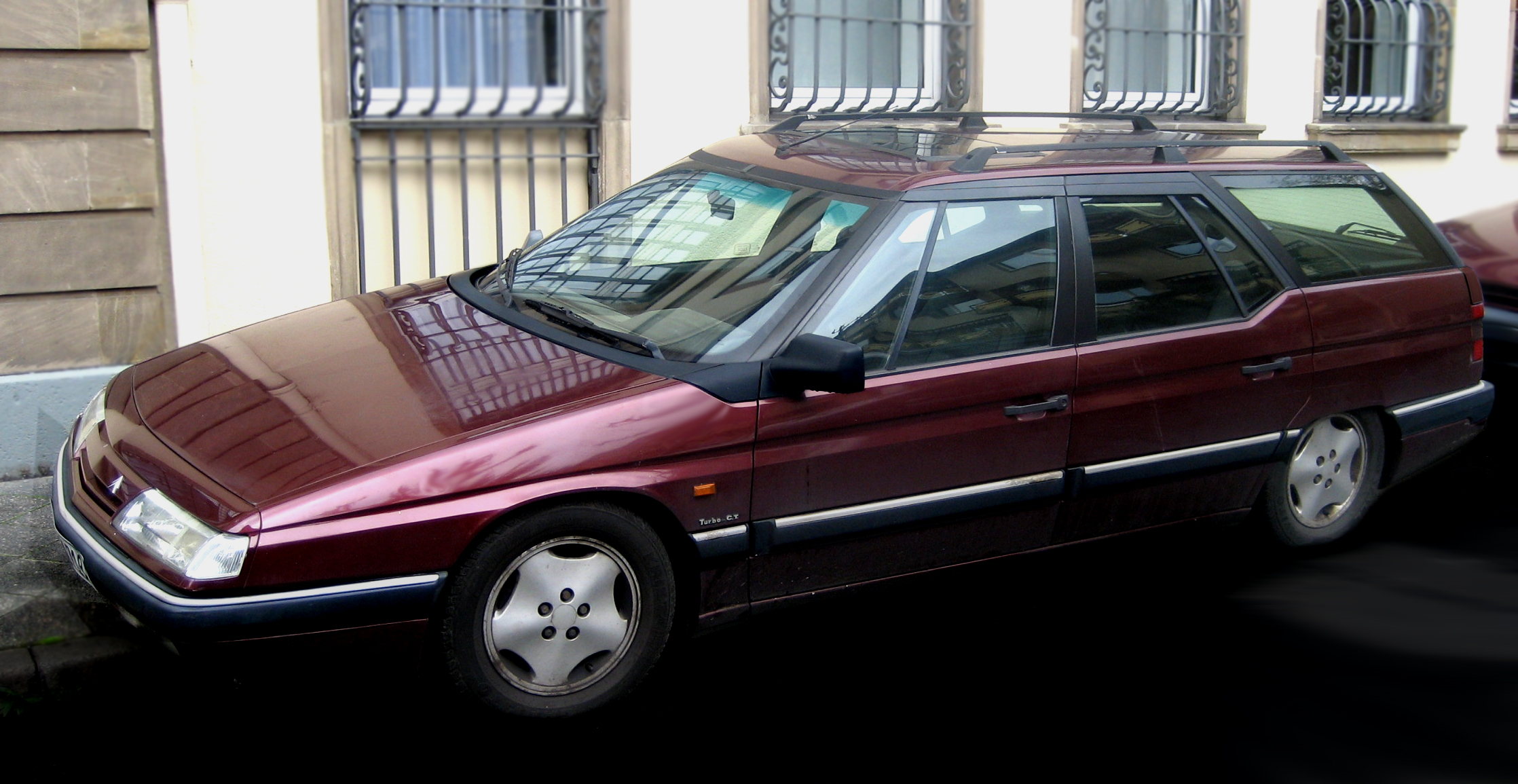 Citroen XM, station wagon